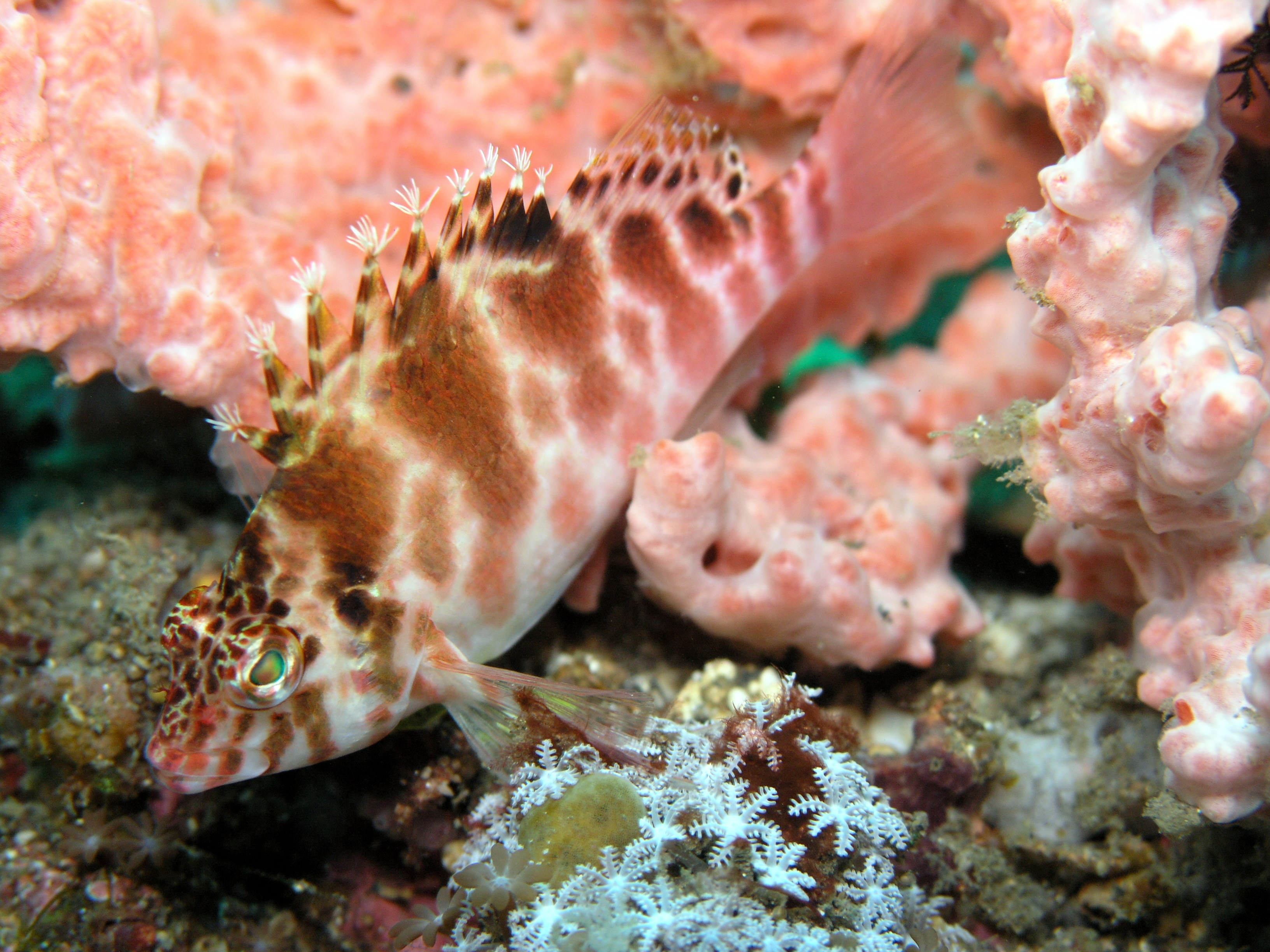 Image of a spotted hawkfish. Cirrhitichthys aprinus. Lembeh straights, North Sulawesi, Indonesia.